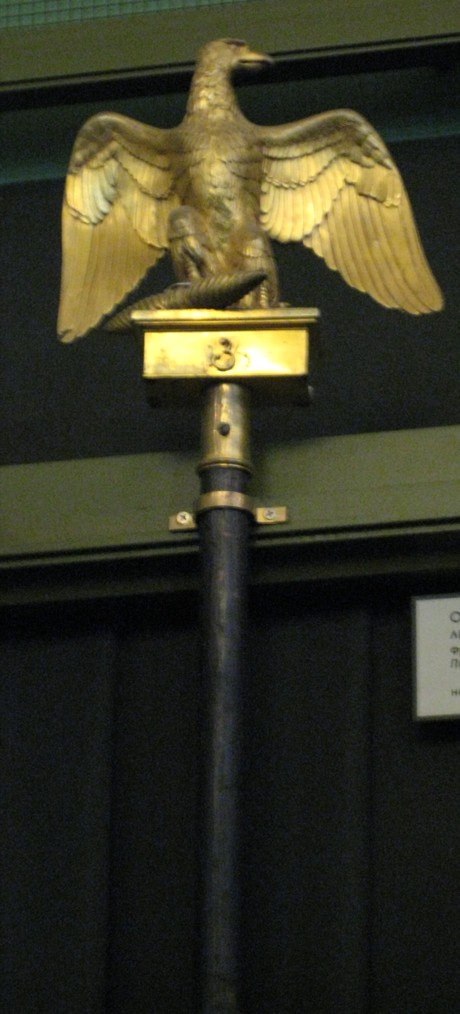 Eagle of 3d regiment of infanterie (3й полк линейной пехоты) taken by Russians in Russian State historical museum